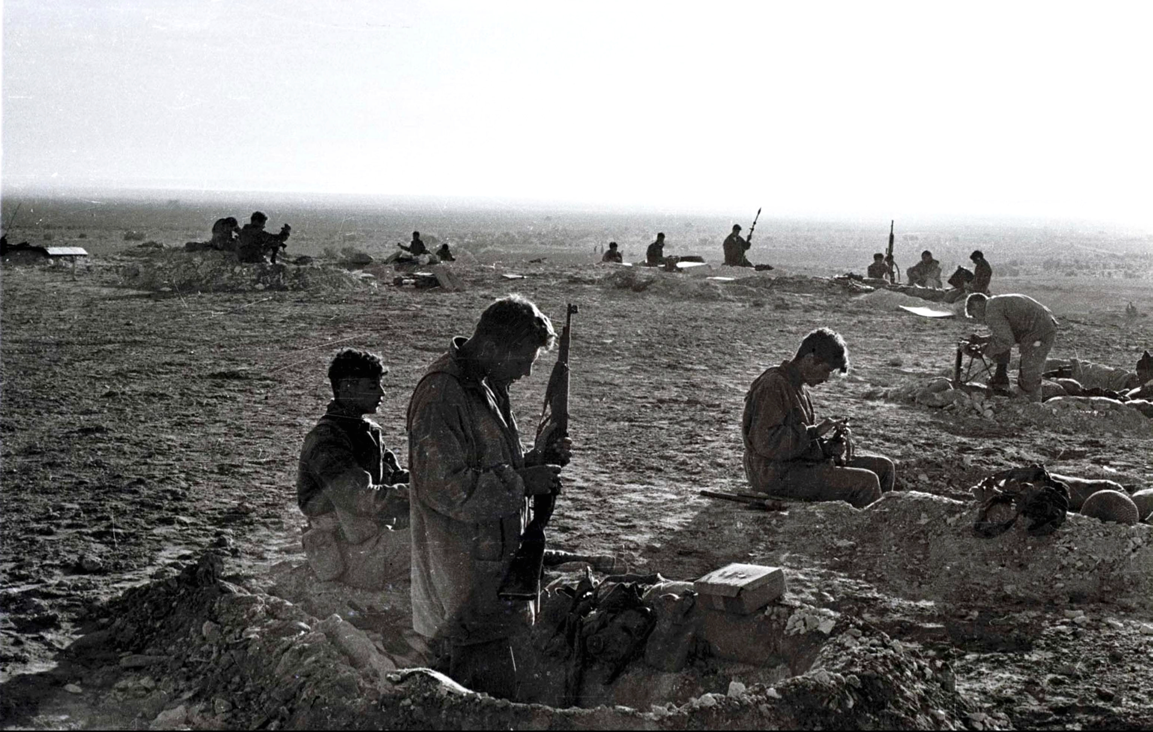 IDF soldiers prepare trenches and clean their weapons in Sinai prior to renewed fighting with the Egyptian army at the Mitla pass during Operation Kadesh. Picture taken by Abraham Vered for the IDF weekly "Bamahane"